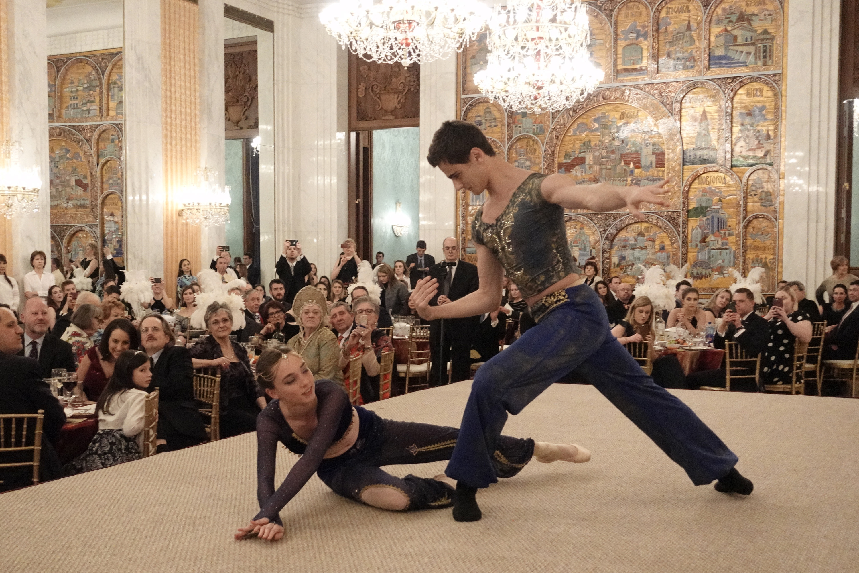 Dancers of Armenian National Ballet from Yerevan, Armenia perform Arabian Dance at Maslenitsa at the Russian Embassy in Washington on March 1, 2019. Photo by Yuri Gripas.